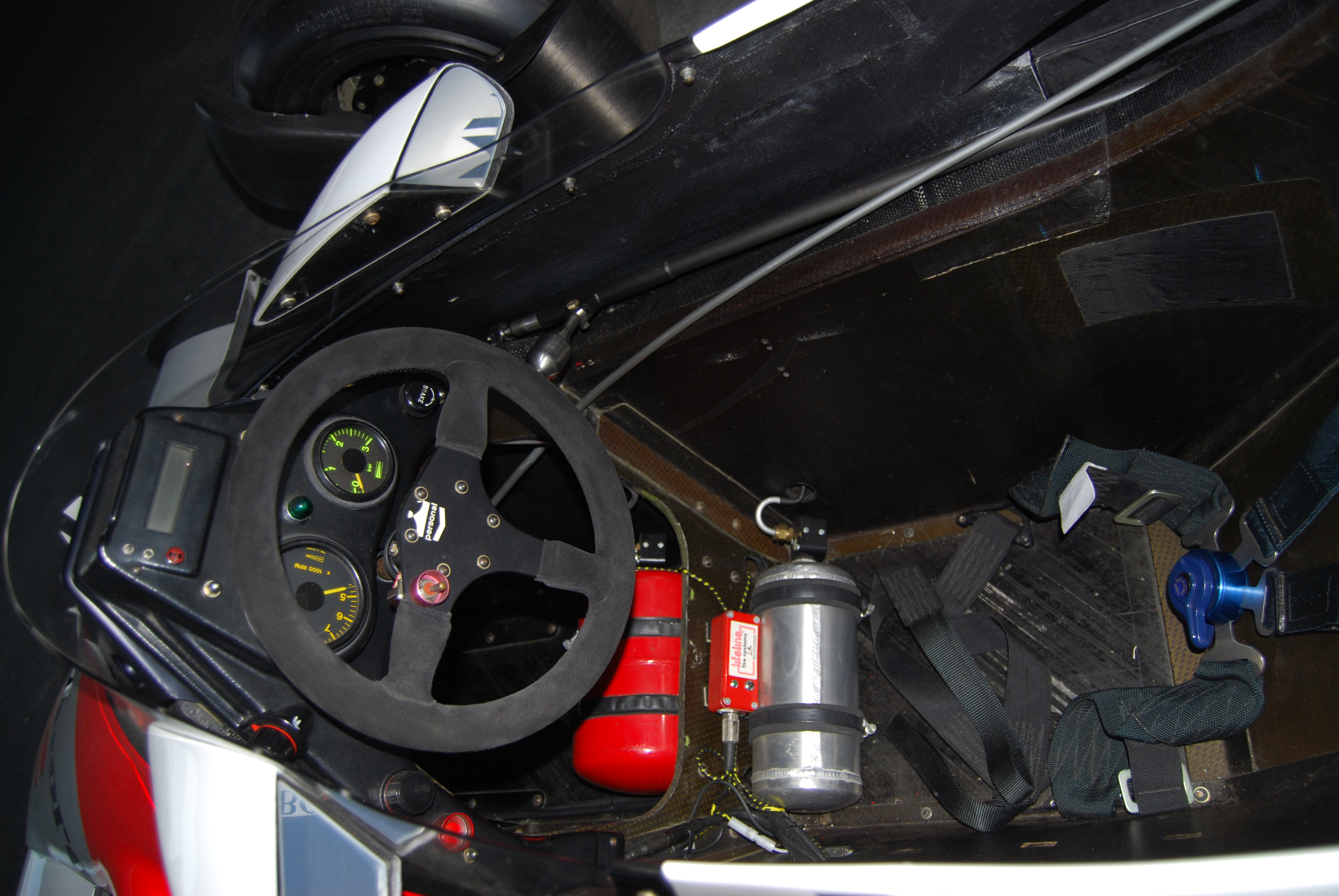 M. Alain Prost had his first F1 driving experience as a test driver for McLaren, He gave Renault their closest approach to the Formula 1 championship, got poor-mouthed by the team and returned to McLaren, displacing John Watson and ending Watson's F1 career. The MP4/1 won races with a Ford-Cosworth, and Lauda won in the MP4/1e with the turbo engine. In the first full season with the TAG turbo, Lauda and Prost walked away with almost everything that wasn't nailed down, finishing 1st, 2nd, or having a mechanical failure in most races Lauda took the Championship by 1/2 point, and traded his #11 for #1. Prost got #2, seen here. In their second year with the TAG turbo, Lauda found success harder, and Prost took the championship. Lauda's second retirement was the real one. He had an airline to run, books to write and a Ferrari team to advise. Prost had 3 more championships to win. In a splendid display of unintended consequences, in that first season, Prost "benefitted" from an early end to a rain-soaked Monaco Grand Prix, Clerk of the course Jackie Icyx decided it was too dangerous to continue. Prost was leading when the race was stopped, so he was the winner. But because it was stopped more than a few laps short, FIA rules awarded half-points for each place and he got 4 1/2, not 9, for the 1st place. Someone, (can it have been Senna?) was closing in on Prost- some observers grumbled that the early end of the race gave Prost a win that might have been 2nd place over the full distance. Second place over the full distance would have yielded 6 points, 1 1/2 more than the short distance win, and instead of Lauda by 1/2 point, the championship would have gone to Prost by 1 point. Prost would have finished his career with 50 wins, and 5 championships, tying Fangio. McLaren-TAG/Porsche MP4/2 DSC_0298